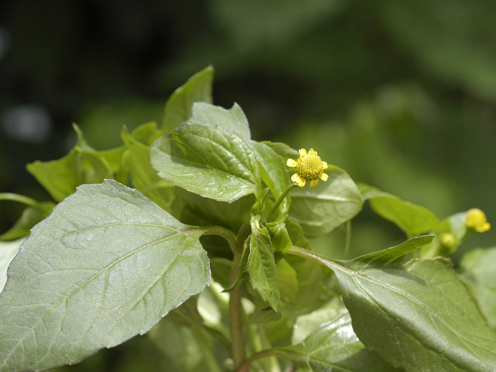 Flowering shoot of Jambú (Acmella ciliata, Asteraceae). From a local market in Bragança, Pará, North Brazil*